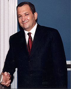 Former Israeli PM Ehud Barak.